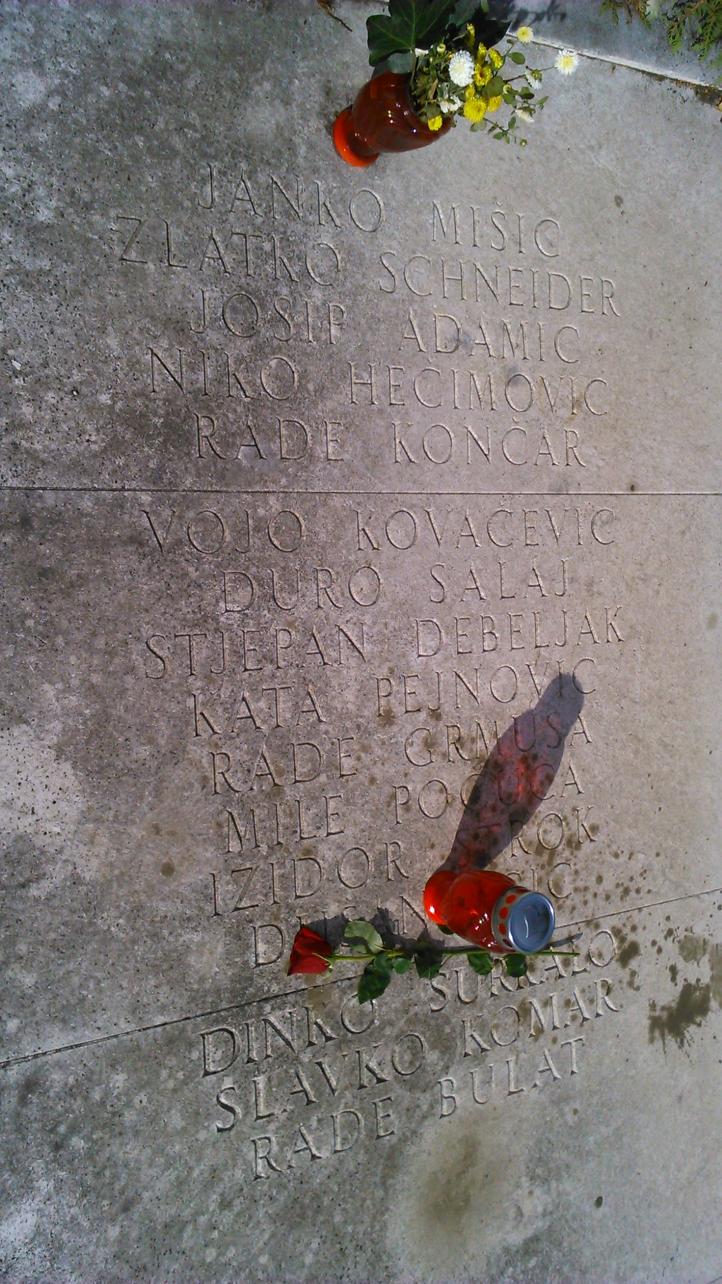 Left tombstone with namelist of the buried revolutionaries in the tomb, as of 2016.